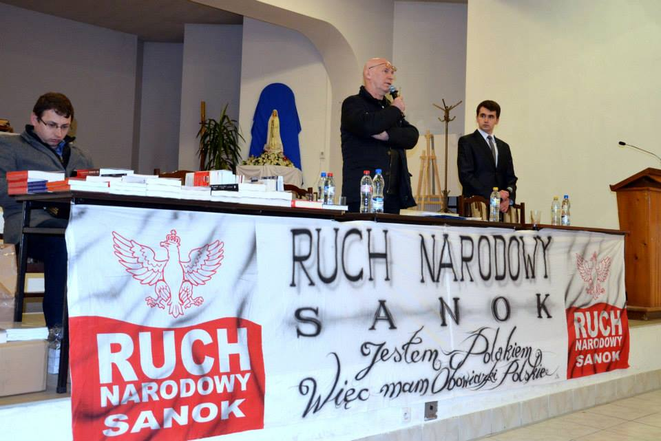 Treffen mit Leszek Żebrowski